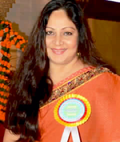 Rati Agnihotri At Annual day celebration of Children's Welfare Centre High School